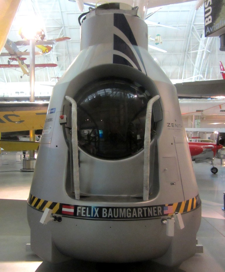 Red Bull Stratos on display